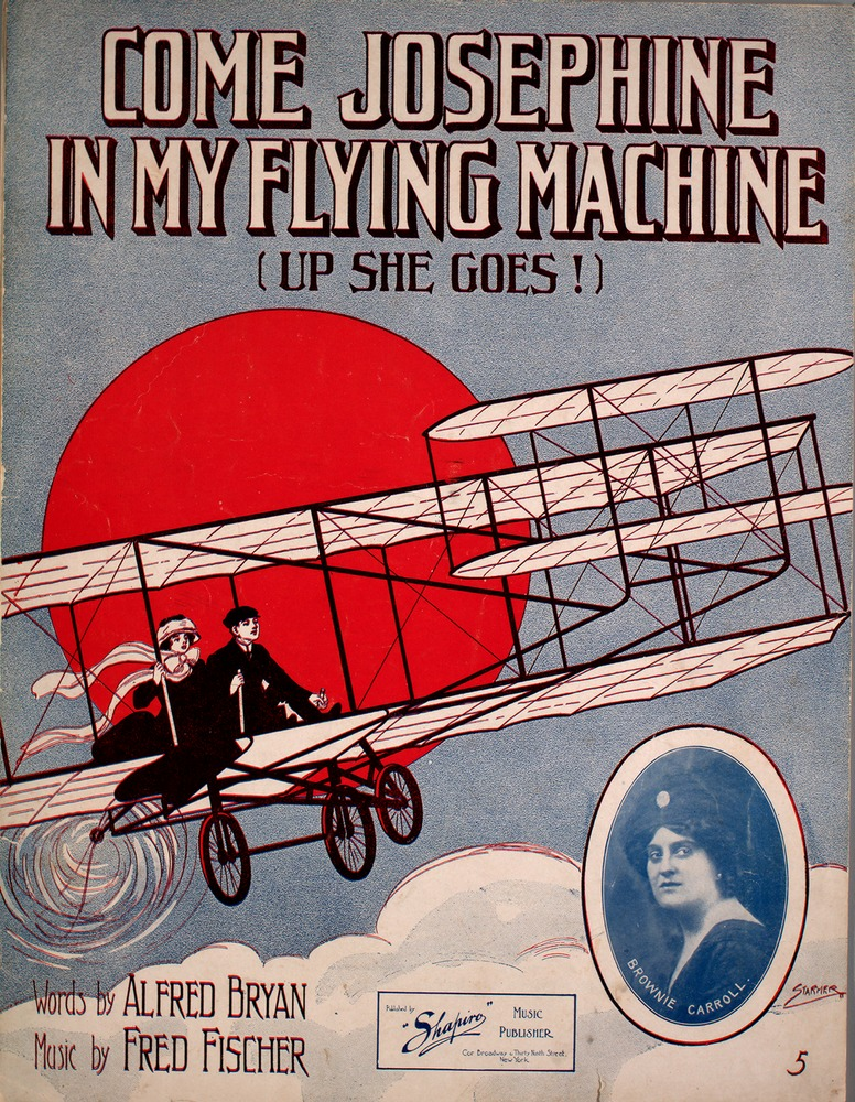 "Come Josephine In My Flying Machine" sheet music cover. Small photo of singer Brownie Carroll at bottom right.